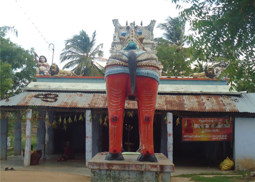 Trichy Kattuputhur mathurai kaaiyamman temple